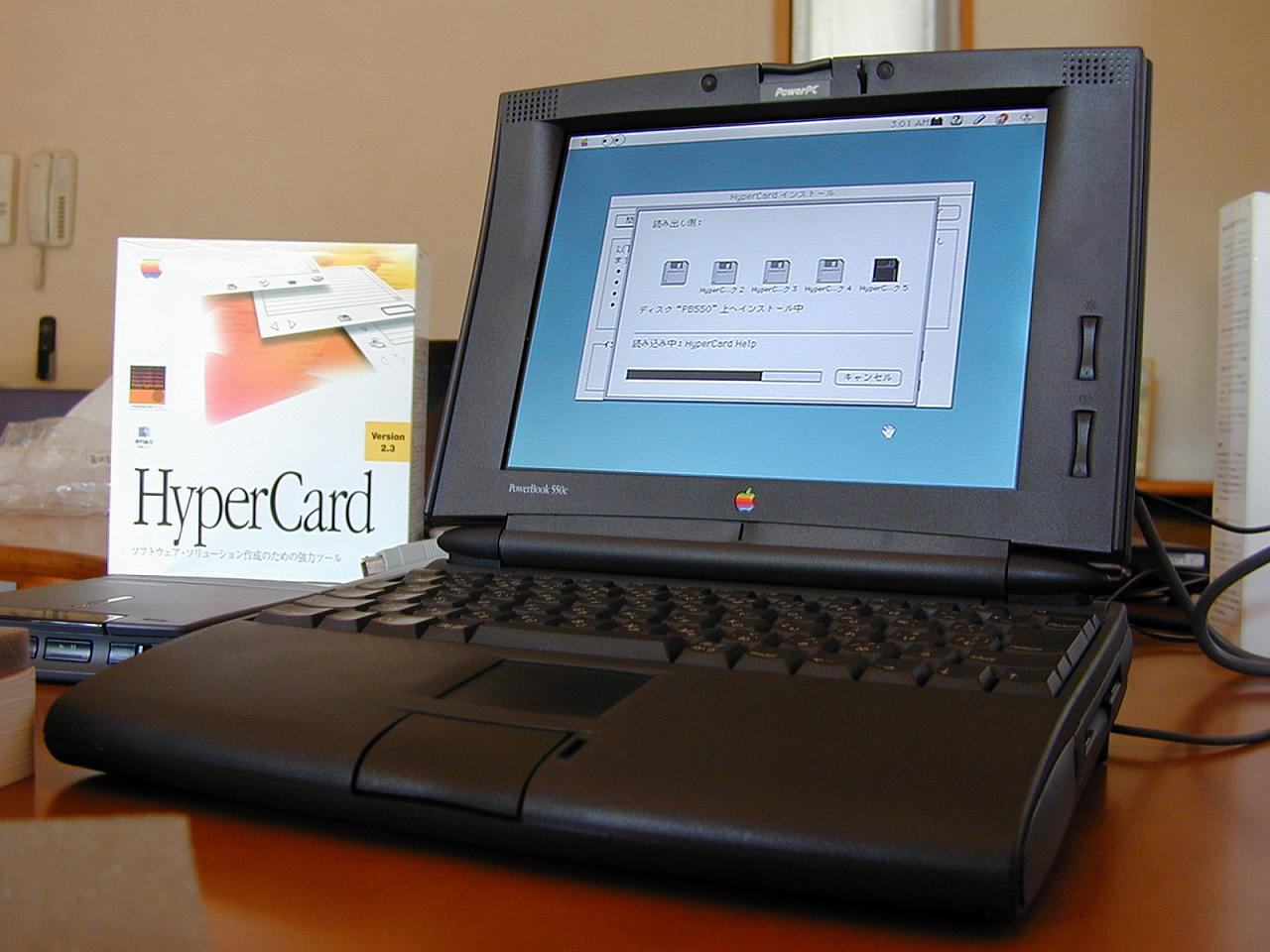 with PowerPC603e/100MHz Processor Upgrade Card. HyperCard, Installation. PowerBook 550c / Japanese market only